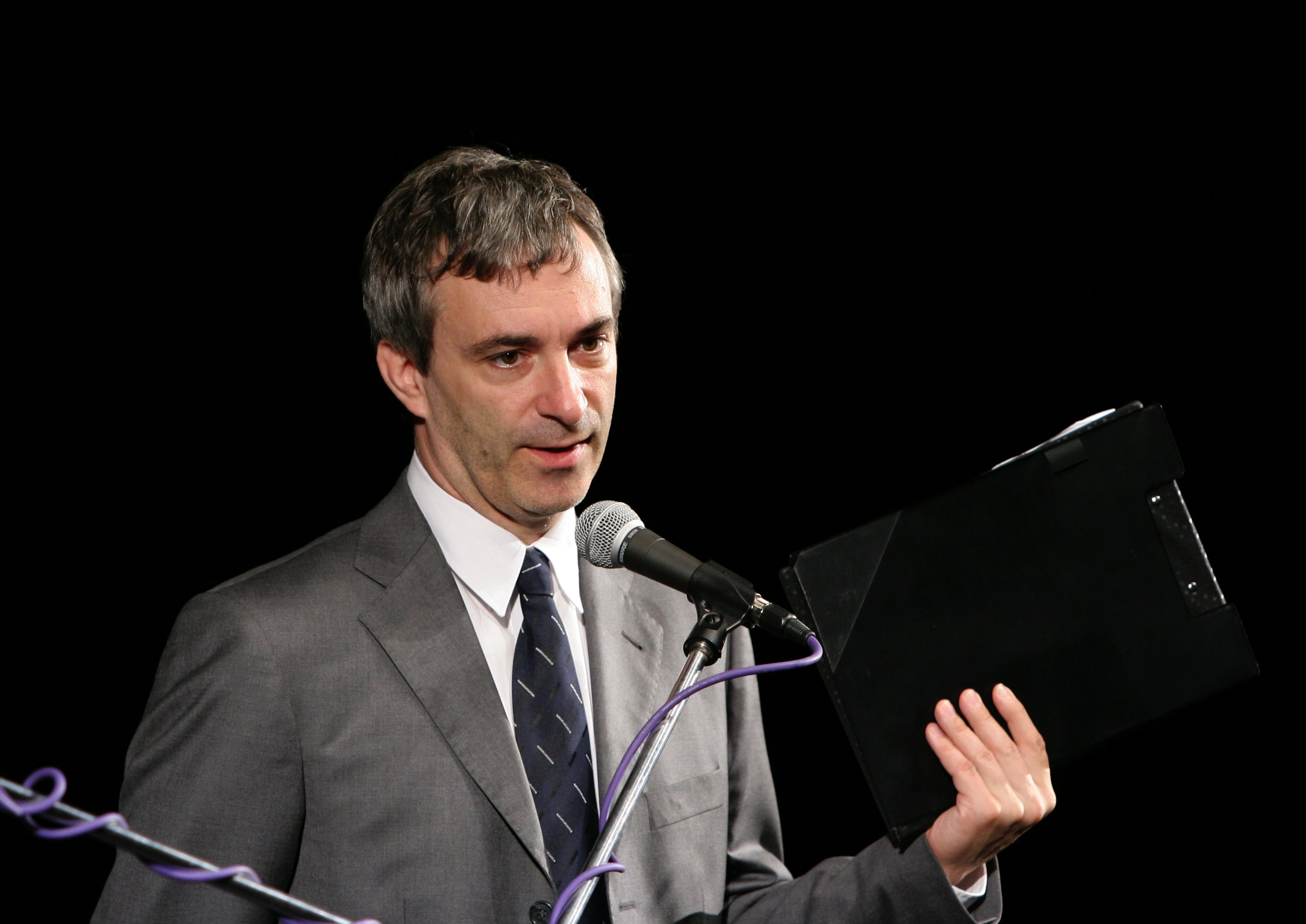 Petr Vacek at 42nd Karlovy Vary International Film Festival